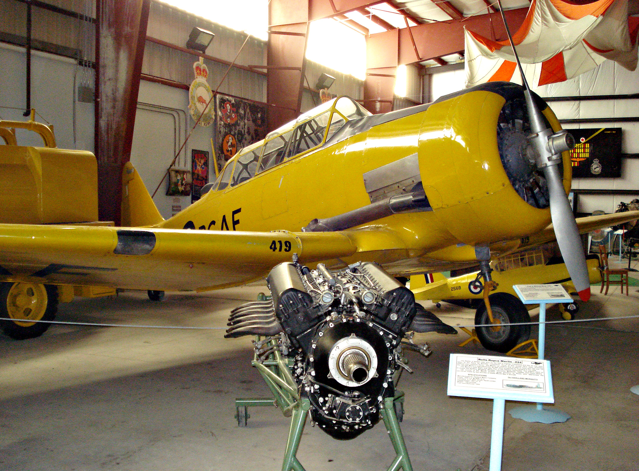 Rolls-Royce Merlin 224 engine built by Packard in the United States. These engines powered the Avro Lancaster Mk X. Photographed at the Bomber Command Museum of Canada, Nanton Alberta.